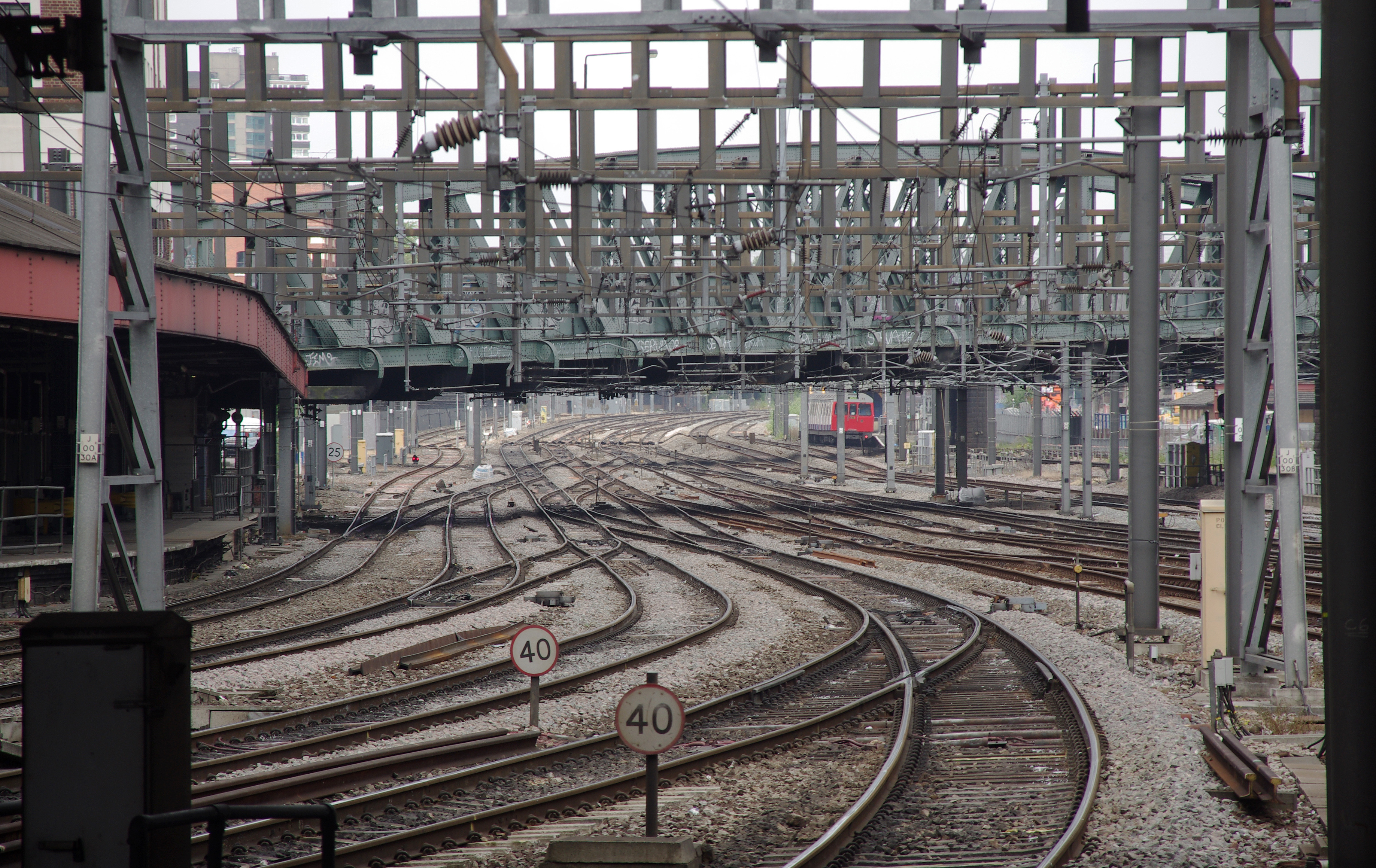 The Paddington throat, with an approaching C69 Circle/Hammersmith train.